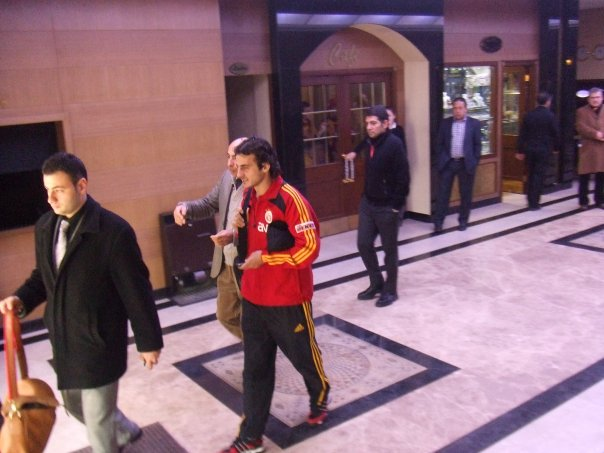 Galatasaray SK striker Yaser Yıldız in Sivas.